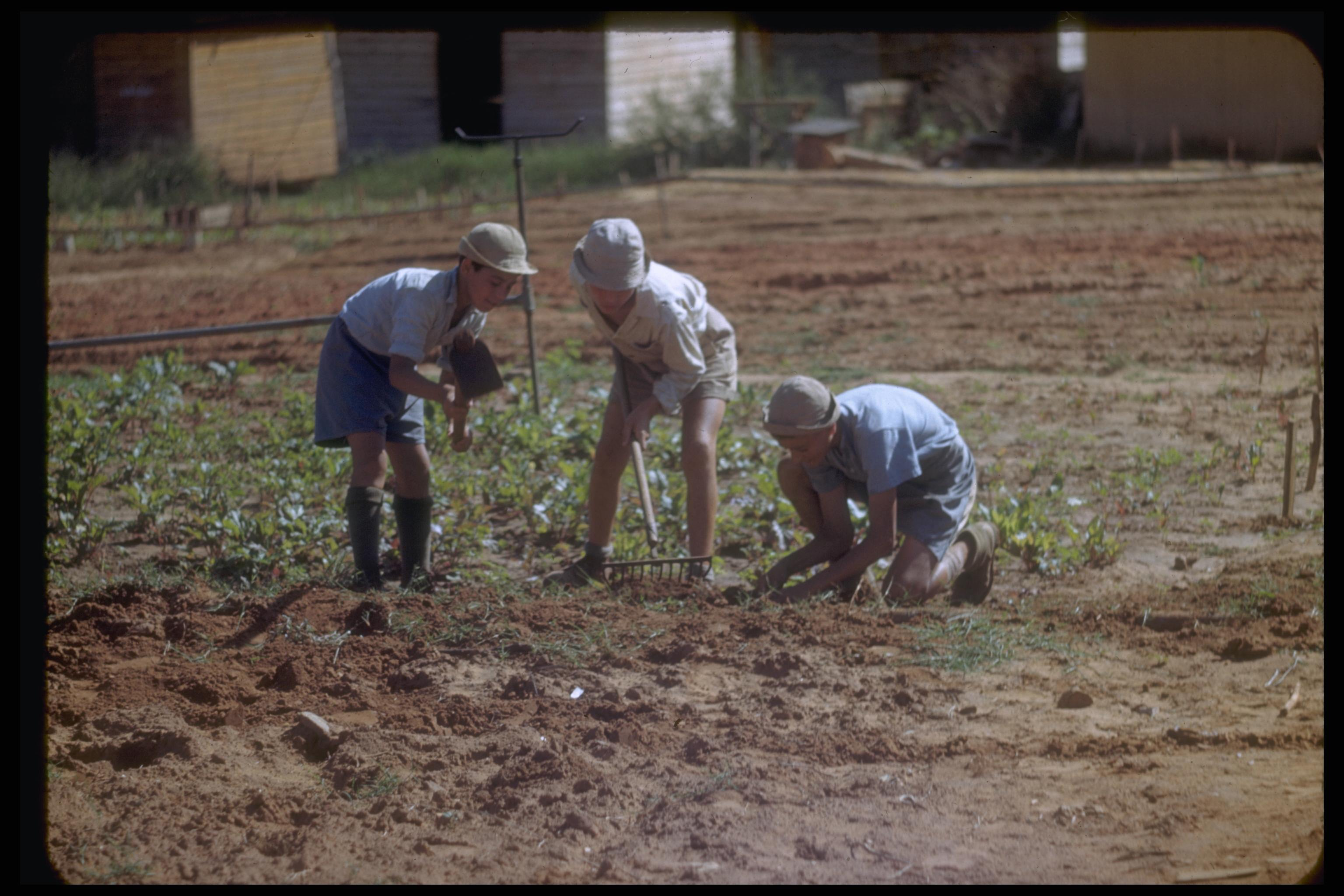 Original Description: CHILDREN WORKING IN THE FIELD AT THE "YOUTH ALIYA" CAMP NEAR "KARKUR".